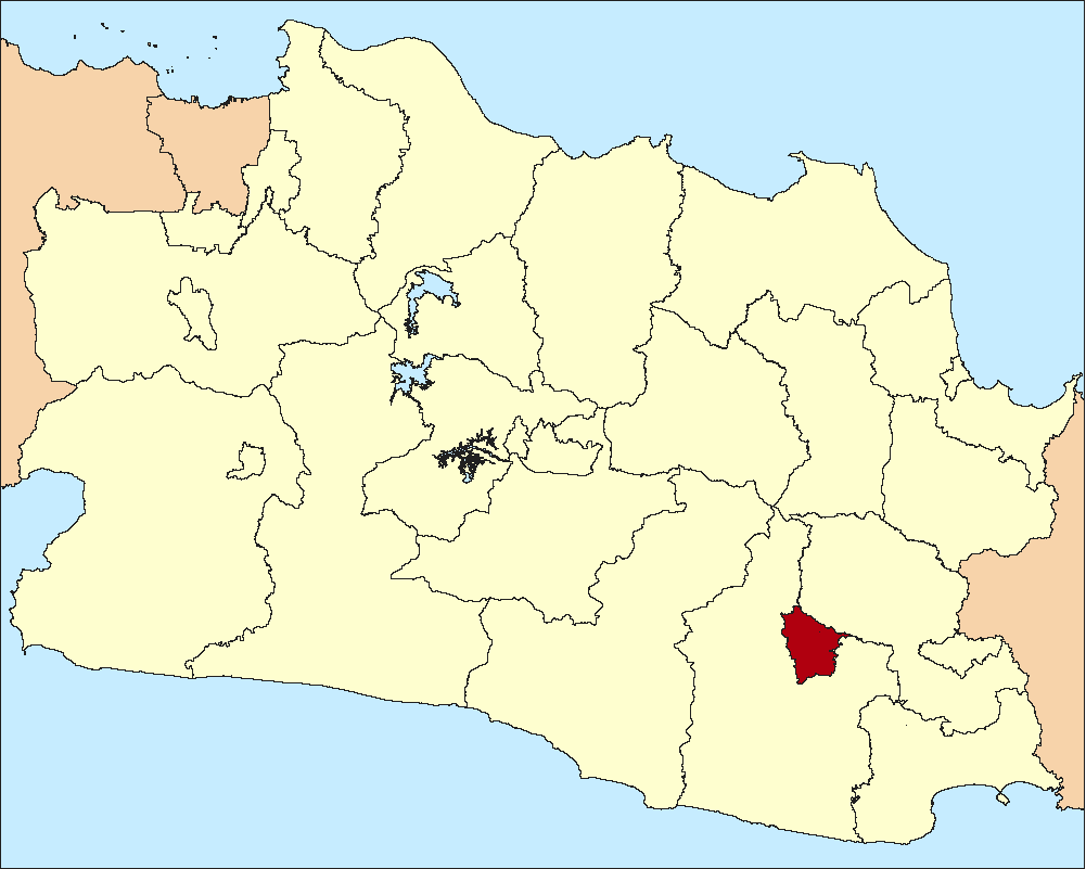 Location of Tasikmalaya city, West Java province, Indonesia